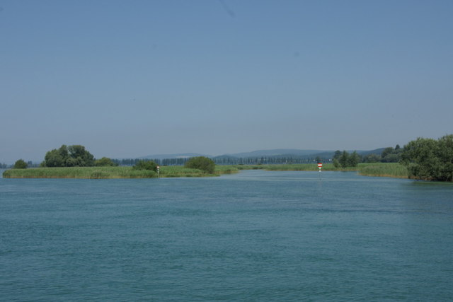 Insel neben dem Wollmatinger Ried (Island next to the Wollmatinger Ried)